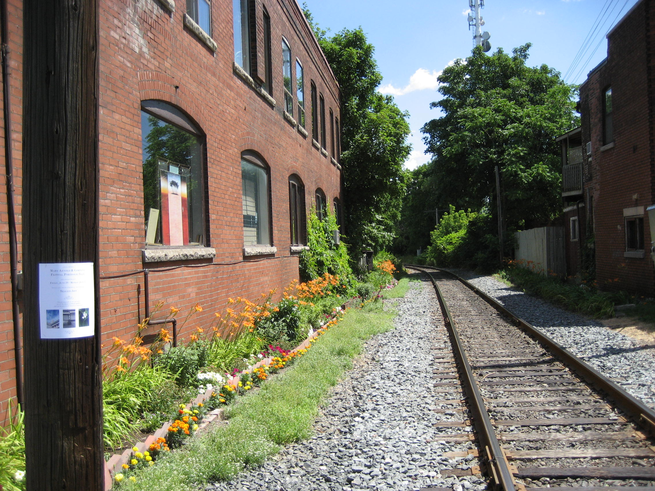 Railway line at Main Street East, near Gage Avenue, Hamilton, Ontario